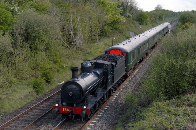 GSWR 186 passing Seagoe GSWR 186 passing near the site of Seagoe Station which was opened in 31-01-1842 by the Ulster Railway Co. and closed on the 12-09-1842 when the railway line was completed as far as Portadown and Portadown Station was opened to passengers on the 12-09-1842.